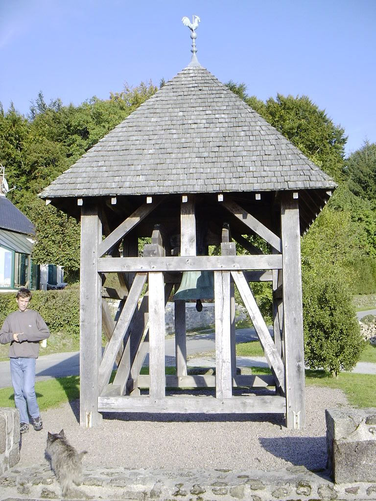 Saint Christophe 23 clocher7744